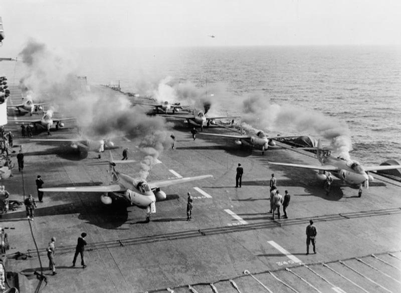 Hawker Sea Hawk F.1 from 806 Naval Air Squadron simultaneously firing their starter cartridges on board the Royal Navy aircraft carrier HMS Eagle (R05) during an exercise in the Western Mediterranean.